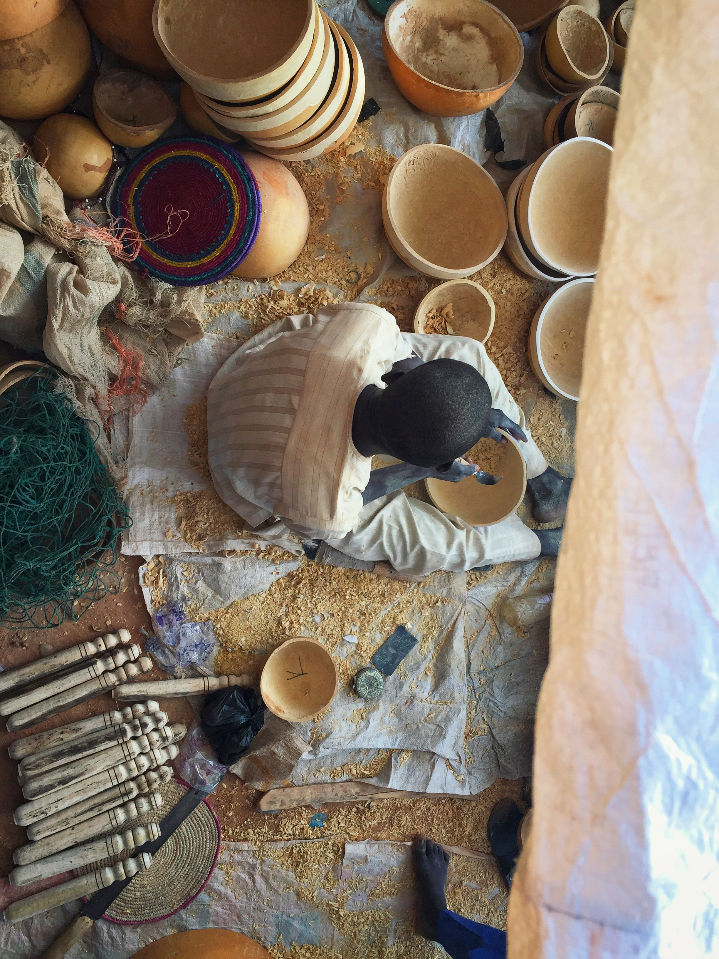 Hausa craftsman working on his incipiently carved calabash traditionally known as "kwarya" in hausa language This is an image of "African people at work" from Nigeria